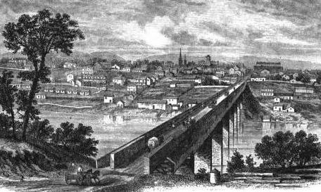 View of Knoxville, Tennessee, USA, looking across the river from the south end of the Gay Street Bridge, circa late-1860s. The bridge shown was destroyed by a flood, and replaced by a covered bridge in 1875, which in turn was destroyed by a tornado after its construction. Click for modern view. Click for 1919 view.